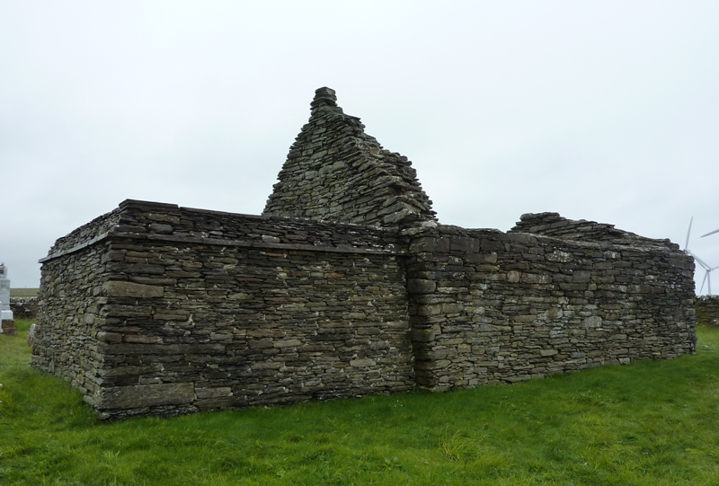 St Mary's Church, Crosskirk, Caithness, Scotland - from the north